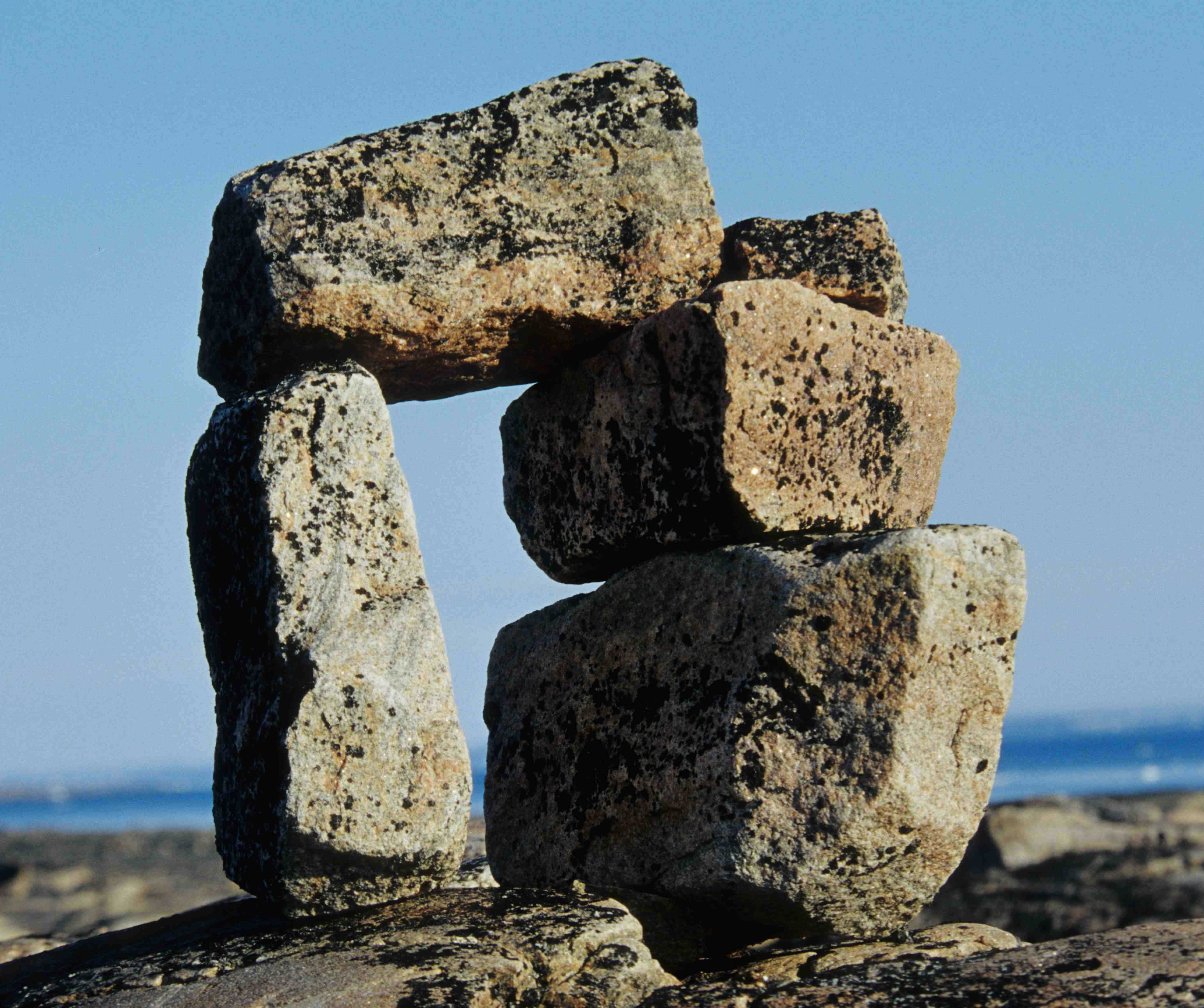 Niungvaliruluit (which means ”pointer like a window“), Inuksuk Point, Foxe Peninsula, Nunavut, Canada